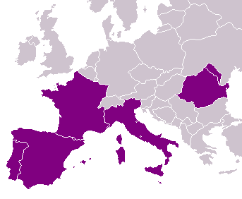 Added Romania and Moldova to the map, as they are Latin countries because Romanian is their official language. Romanian being a Romance Language.